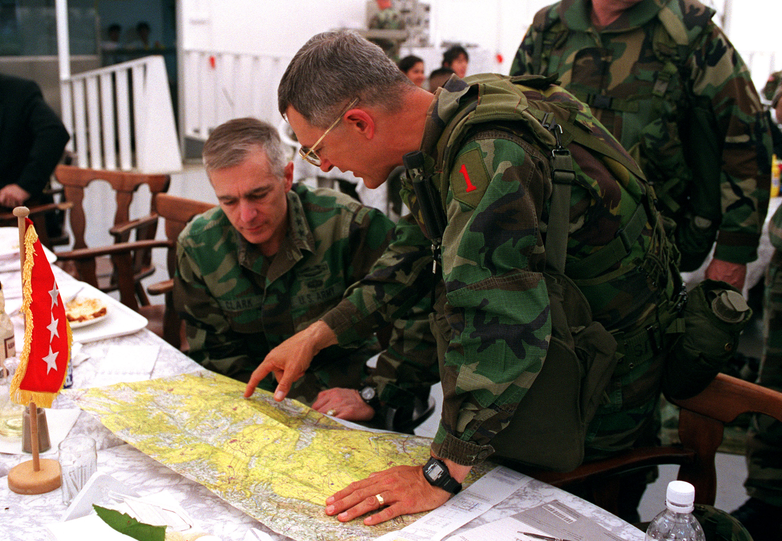 Lt. Gen. John W. Hendrix (right), U.S. Army, briefs Supreme Allied Commander Europe Gen. Wesley Clark (left) on the proposed helicopter route for Secretary of Defense William S. Cohen's visit to troops deployed to Kosovo for KFOR. KFOR is the NATO-led, international military force in Kosovo conducting the peacekeeping mission known as Operation Joint Guardian. Hendrix is the commanding general 5th Corps, U.S. Army.